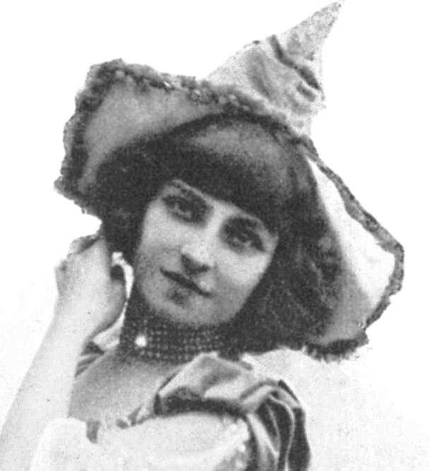 Cropped headshot of Polaire (1899)